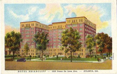 postcard of Briarcliff Hotel, 1920s